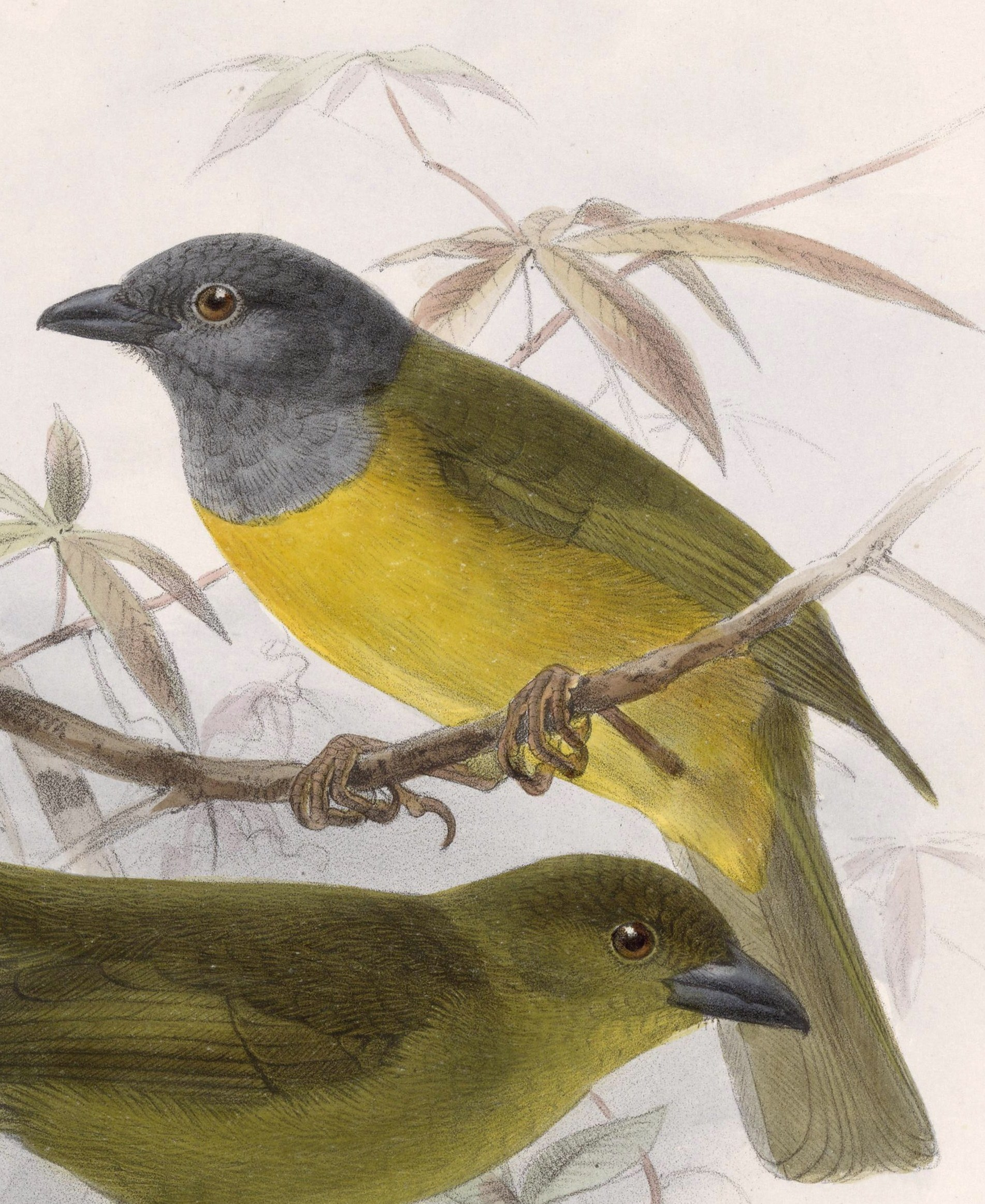 « Eucometis spodocephala » = Eucometis penicillata spodocephala (Subspecies of Grey-headed Tanager)